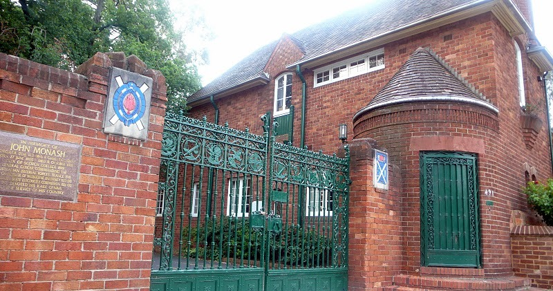 The Monash Gates and gatehouse lodge at Scotch College Melbourne